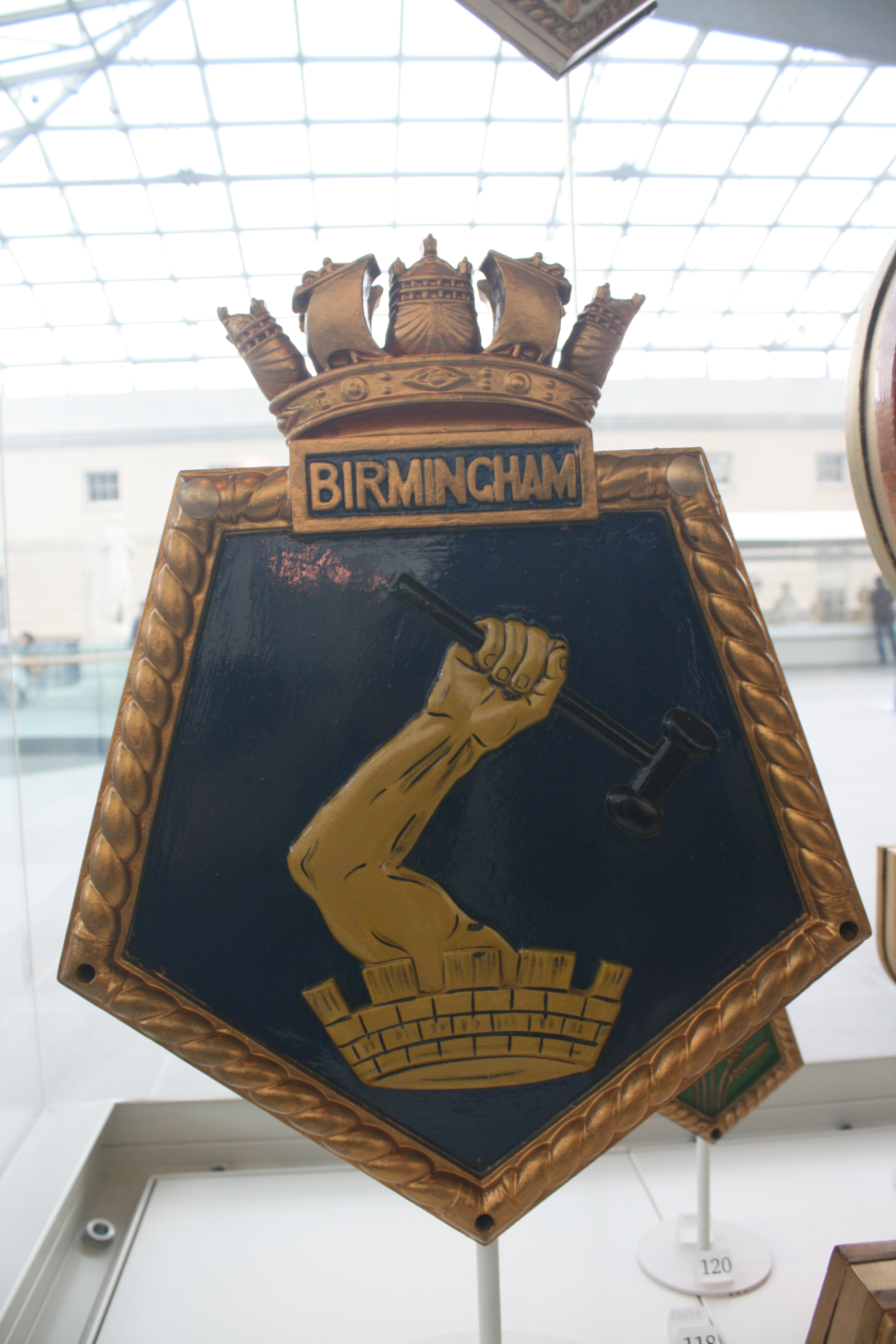 Ship heraldry at the NMM